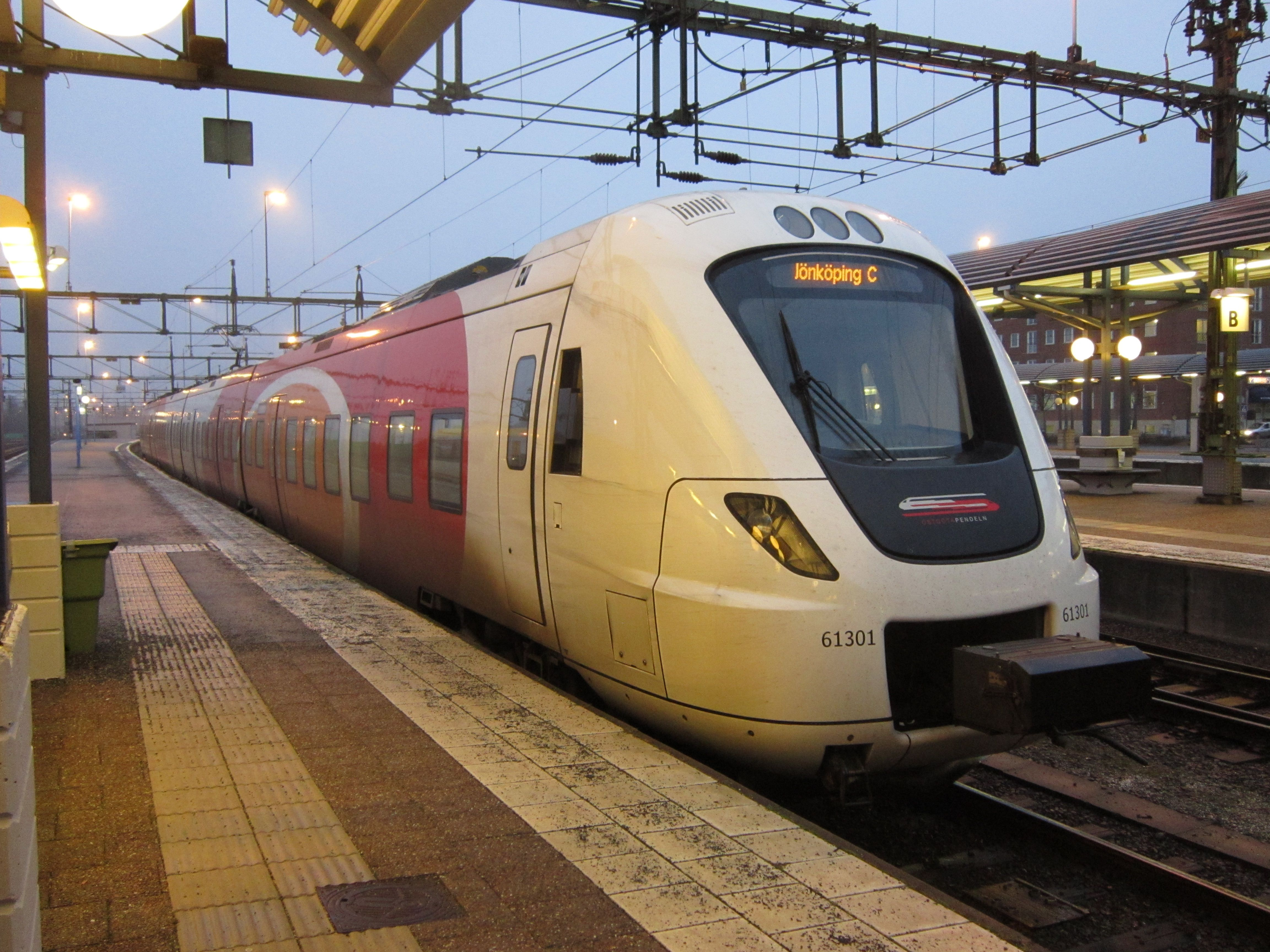 Östgötatrafiken X61 at Nässjö C